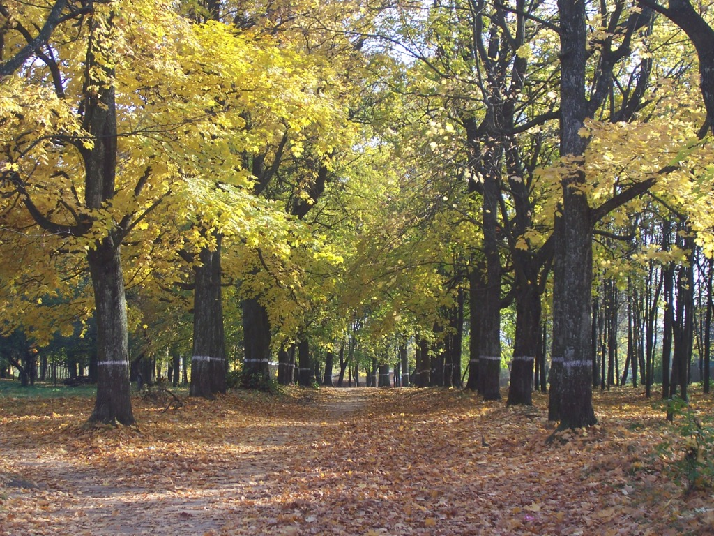 Manor of Maniuszka, Smilaviczy, Bielarus